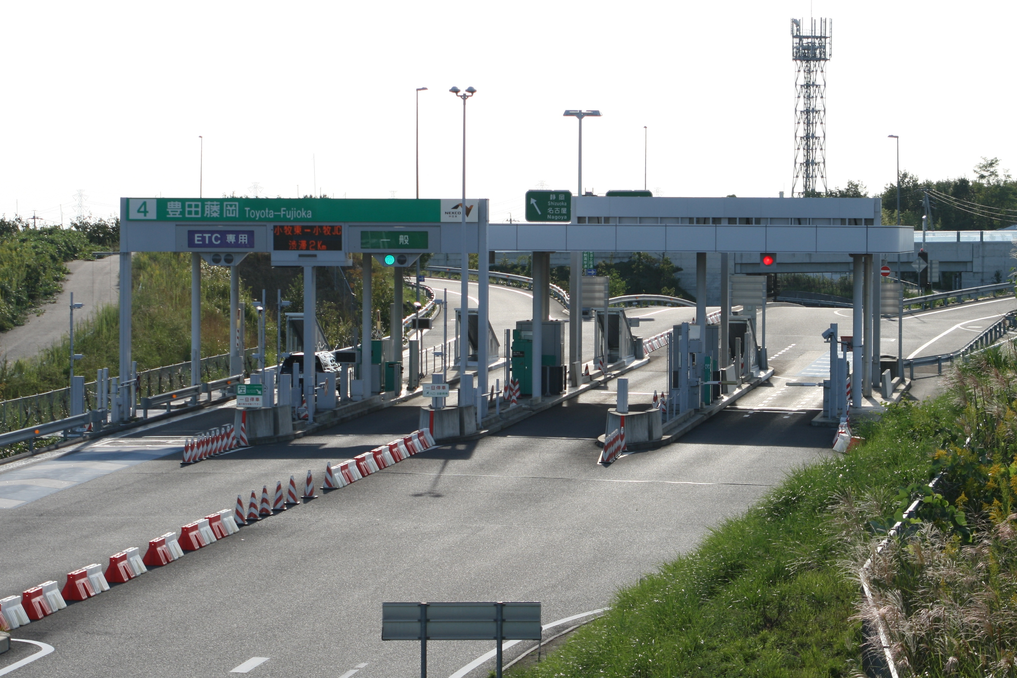 Toyota-Fujioka Interchange, Toyota, Aichi, Japan